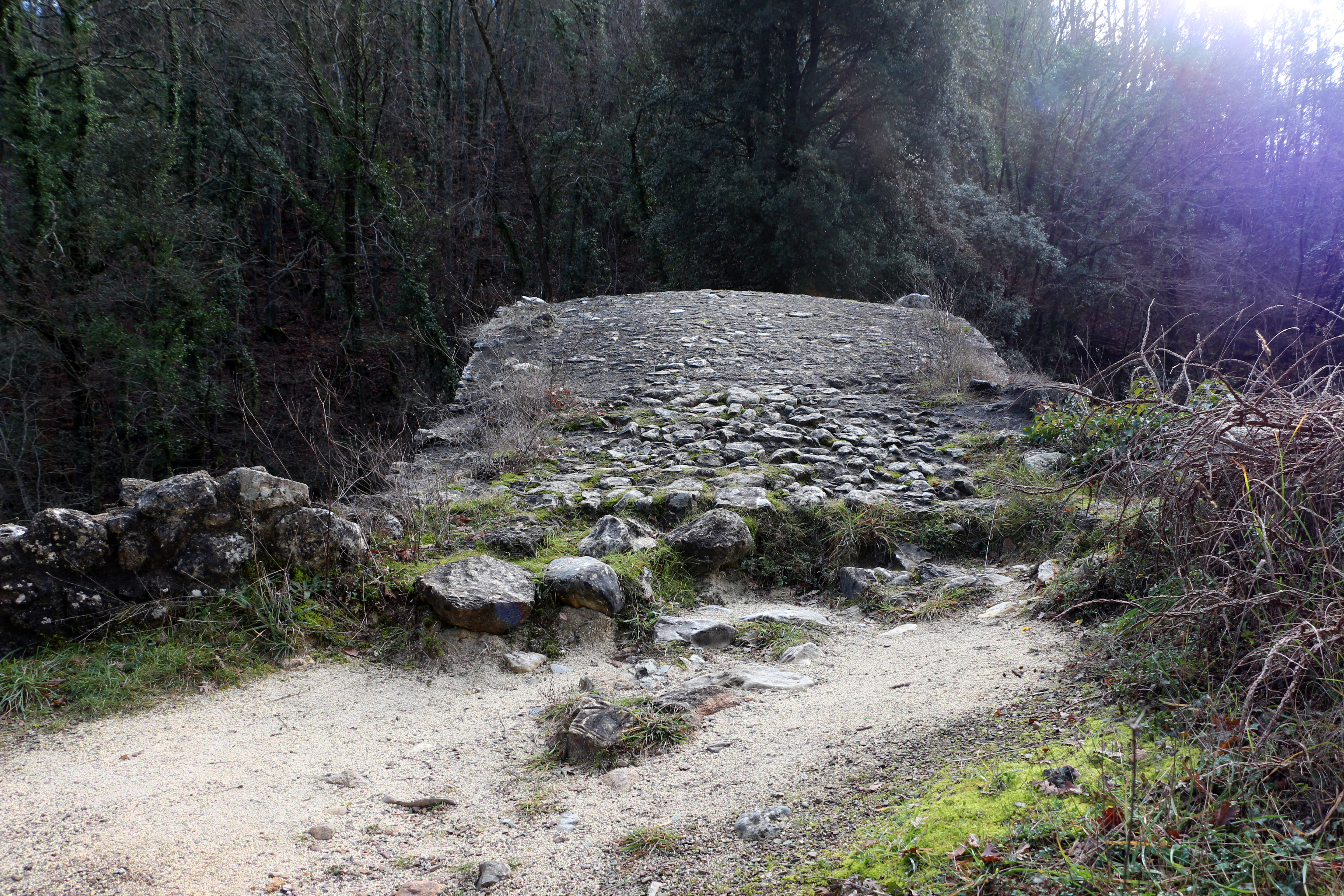 Ponte della Pia (Rosia, Sovicille)